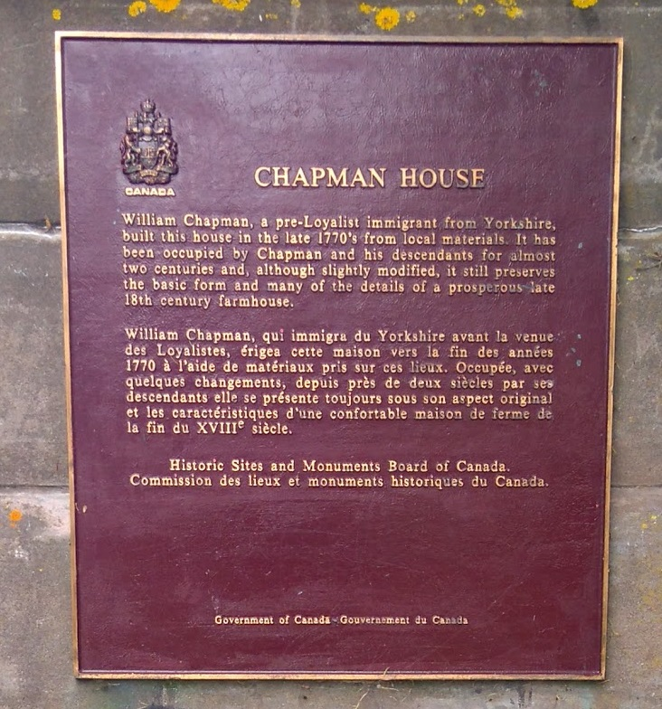 The Chapman House in summertime